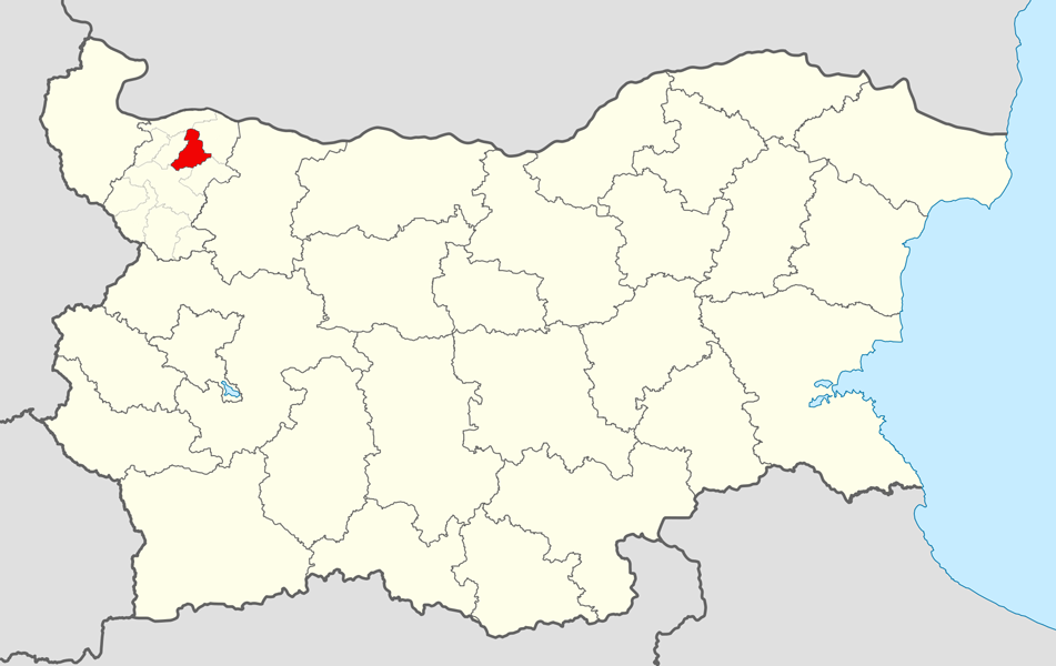 Location map of Yakimovo Municipality within Bulgaria and Montana Province. Equirectangular projection, N/S stretching 130 %. Geographic limits of the map: N: 44.4° N S: 41.1° N W: 22.1° E E: 28.9° E